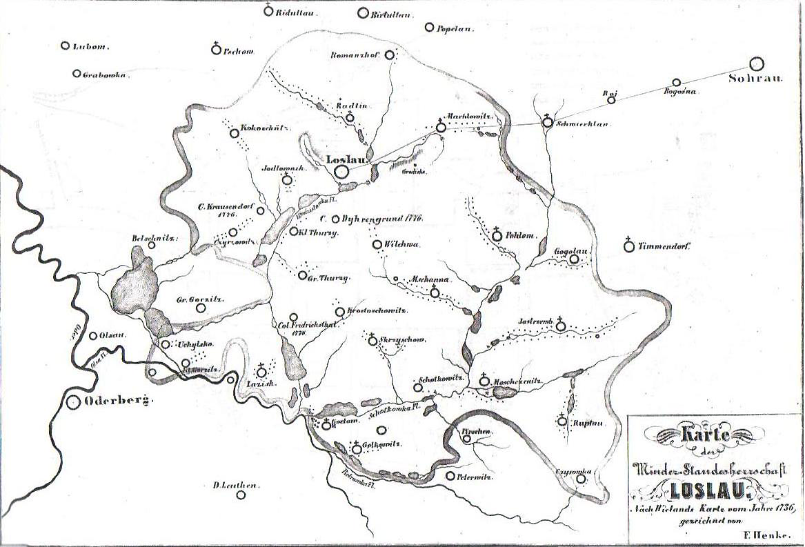 Old Map of Loslau County in 1736.